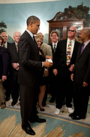 President Barack Obama looks at a headband presented by former quarterback Jim McMahon, in sunglasses, as he greets members of the 1985 Super Bowl Champion Chicago Bears in the Diplomatic Reception Room of the White House, Oct. 7, 2011. The visit was a makeup trip for the Super Bowl XX champions, whose 1986 reception was cancelled due to the Space Shuttle Challenger tragedy. (Official White House Photo by Pete Souza)